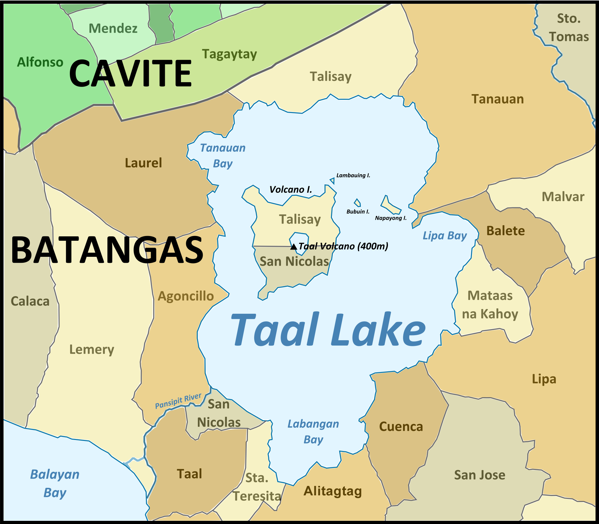 Taal Lake vicinity in the Philippines.